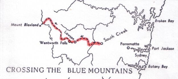 Map of the explorer's route in Australia. This image is of Australian origin and is now in the public domain because its term of copyright has expired. According to the Australian Copyright Council (ACC), ACC Information Sheet G023v17 (Duration of copyright) (August 2014). Type of materialCopyright has expired if ... A Photographs or other works published anonymously, under a pseudonym or the creator is unknown:taken or published prior to 1 January 1955 B Photographs (except A):taken prior to 1 January 1955 C Artistic works (except A & B):the creator died before 1 January 1955 D Published editions1 (except A & B):first published more than 25 years ago E Commonwealth or State government owned2 photographs and engravings:taken or published more than 50 years ago and prior to 1 May 1969 1 means the typographical arrangement and layout of a published work. eg. newsprint. 2owned means where a government is the copyright owner as well as would have owned copyright but reached some other agreement with the creator. When using this template, please provide information of where the image was first published and who created it. You must also include a United States public domain tag to indicate why this work is in the public domain in the United States.